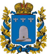 Tambov gubernia (Russian empire), coat of arms